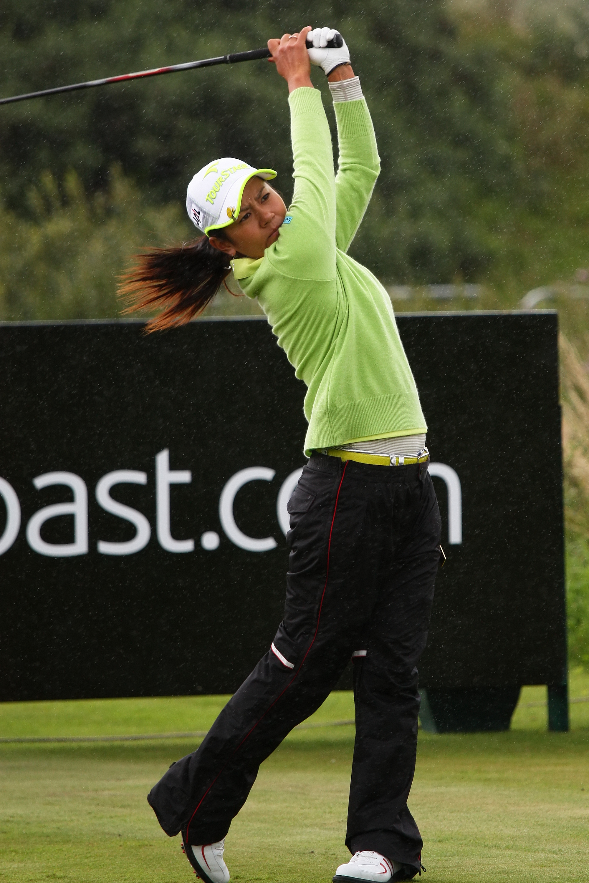 SOUTHPORT, UNITED KINGDOM - JULY 28: Miyazato Ai of Japan tees off on the 10th hole during third practice round before 2010 Ricoh Women's British Open held at Royal Birkdale on July 28, 2010 in Southport, England. (Photo by Wojciech Migda)